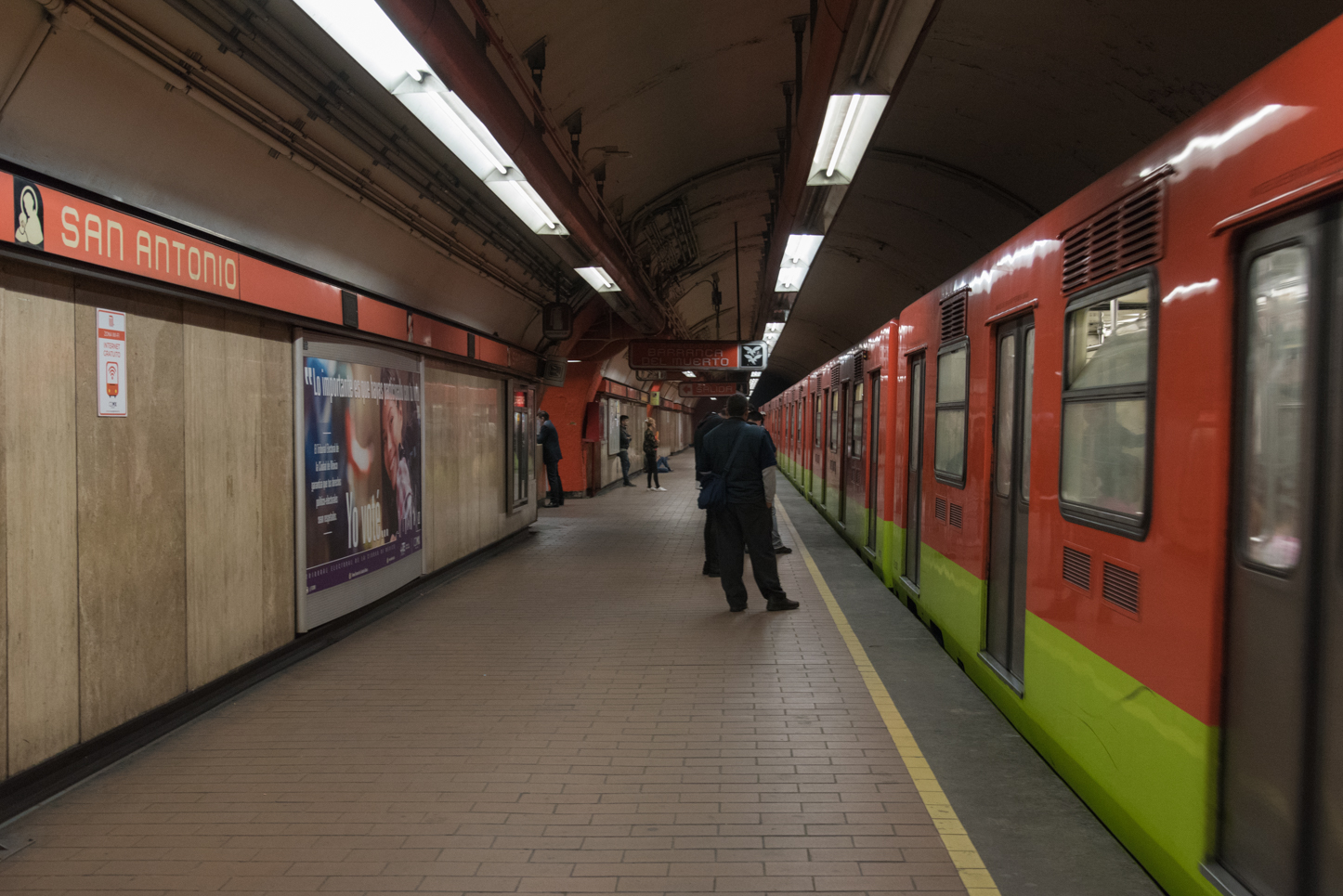 Platform of Metro San Antonio